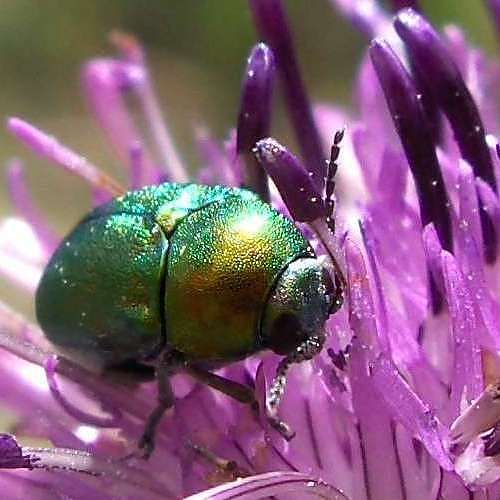 The leaf beetle Cryptocephalus sericeus on Greater Knapweed, Centaurea scabiosa